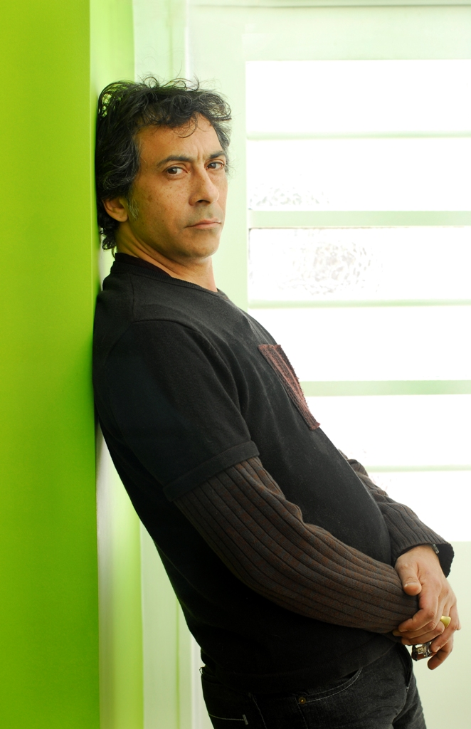 Portrait of Argentine poet Guillermo Piro